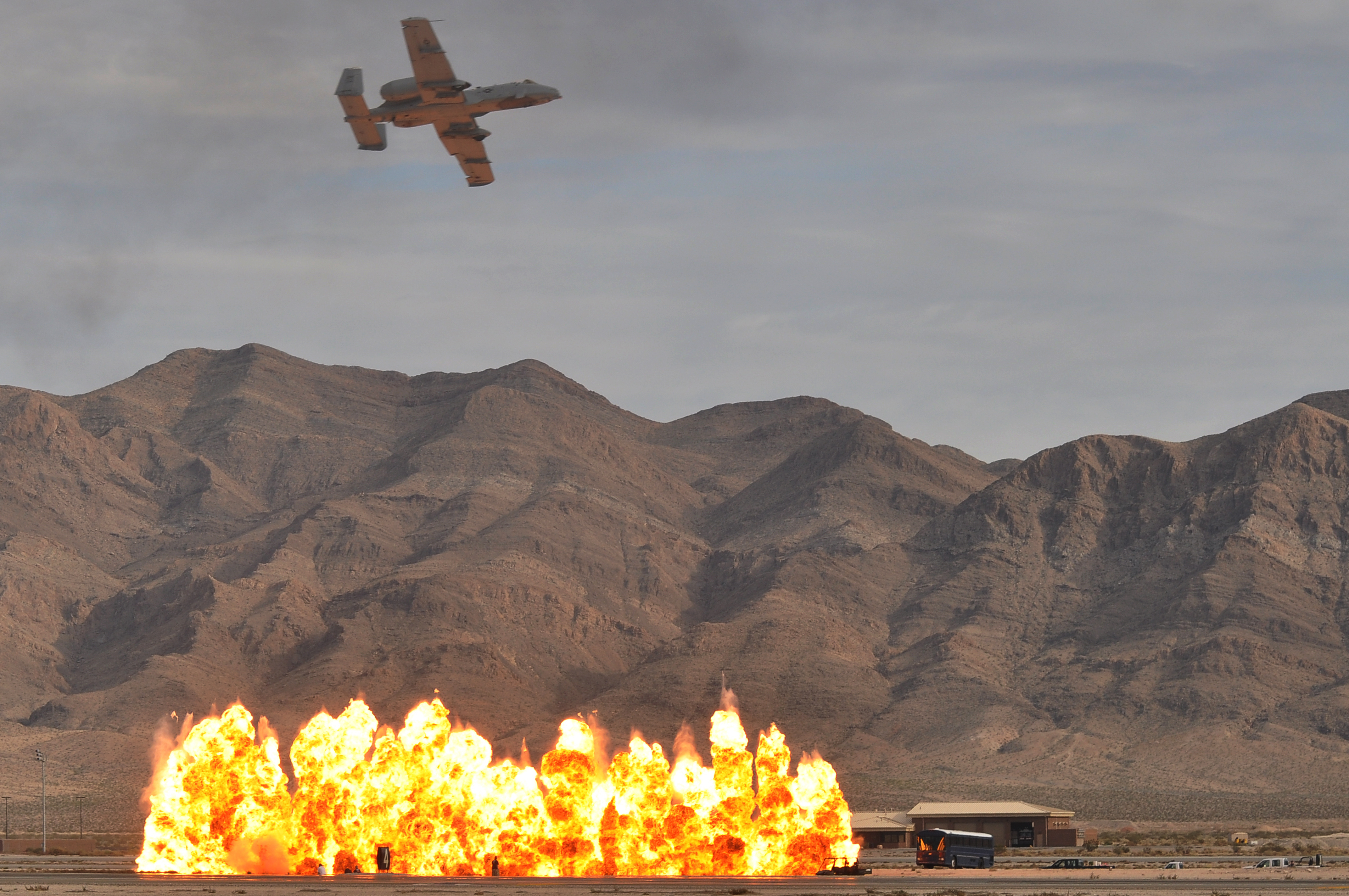 A U.S. Air Force A-10 Thunderbolt II simulates its air to ground capabilities during the 2011 Aviation Nation Open House on Nellis Air Force Base, Nev., Nov. 12, 2011.